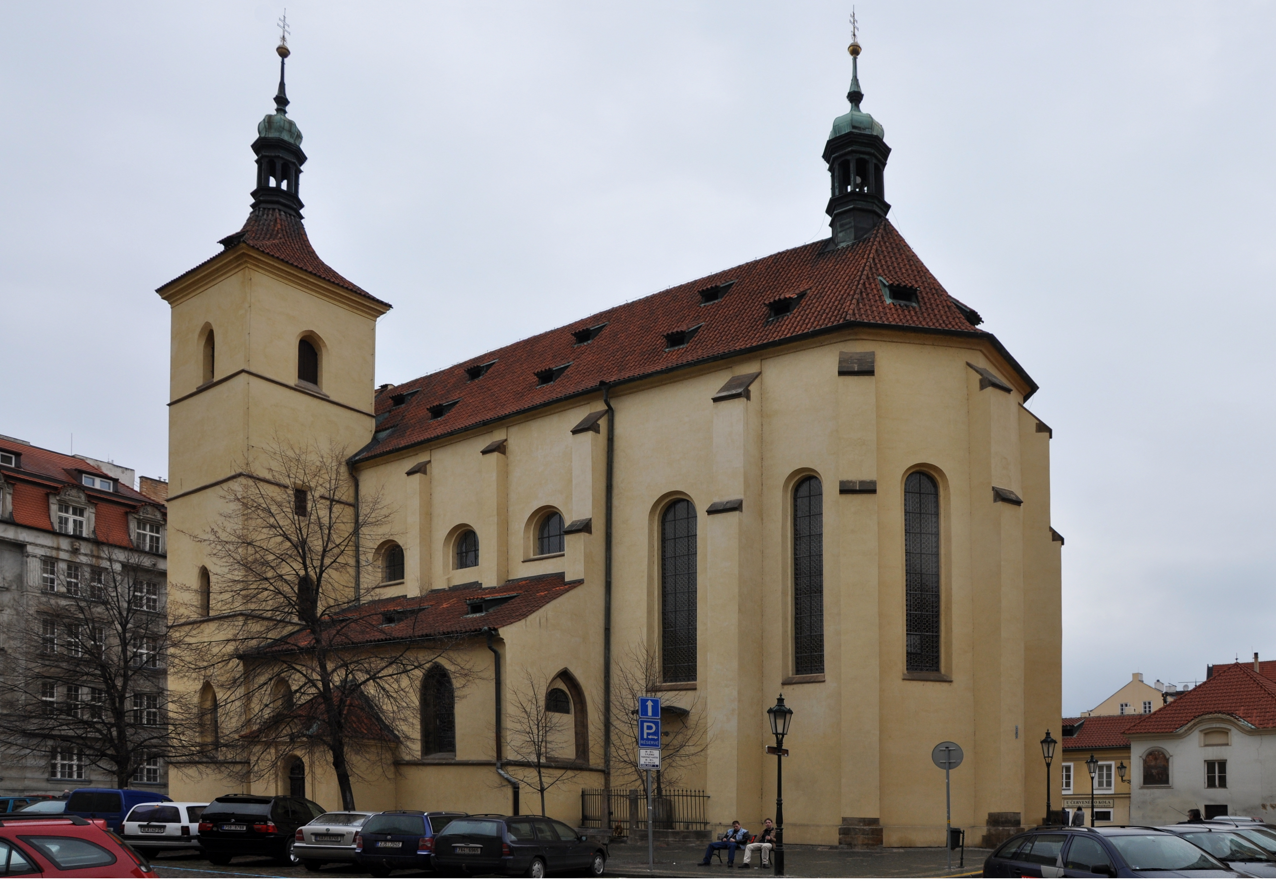 Church of Haštal, Old town, Prague, Czech Republic Česky: Kostel svatého Haštala, Praha, Staré Město